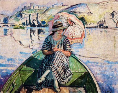 Promenade sur l'eau